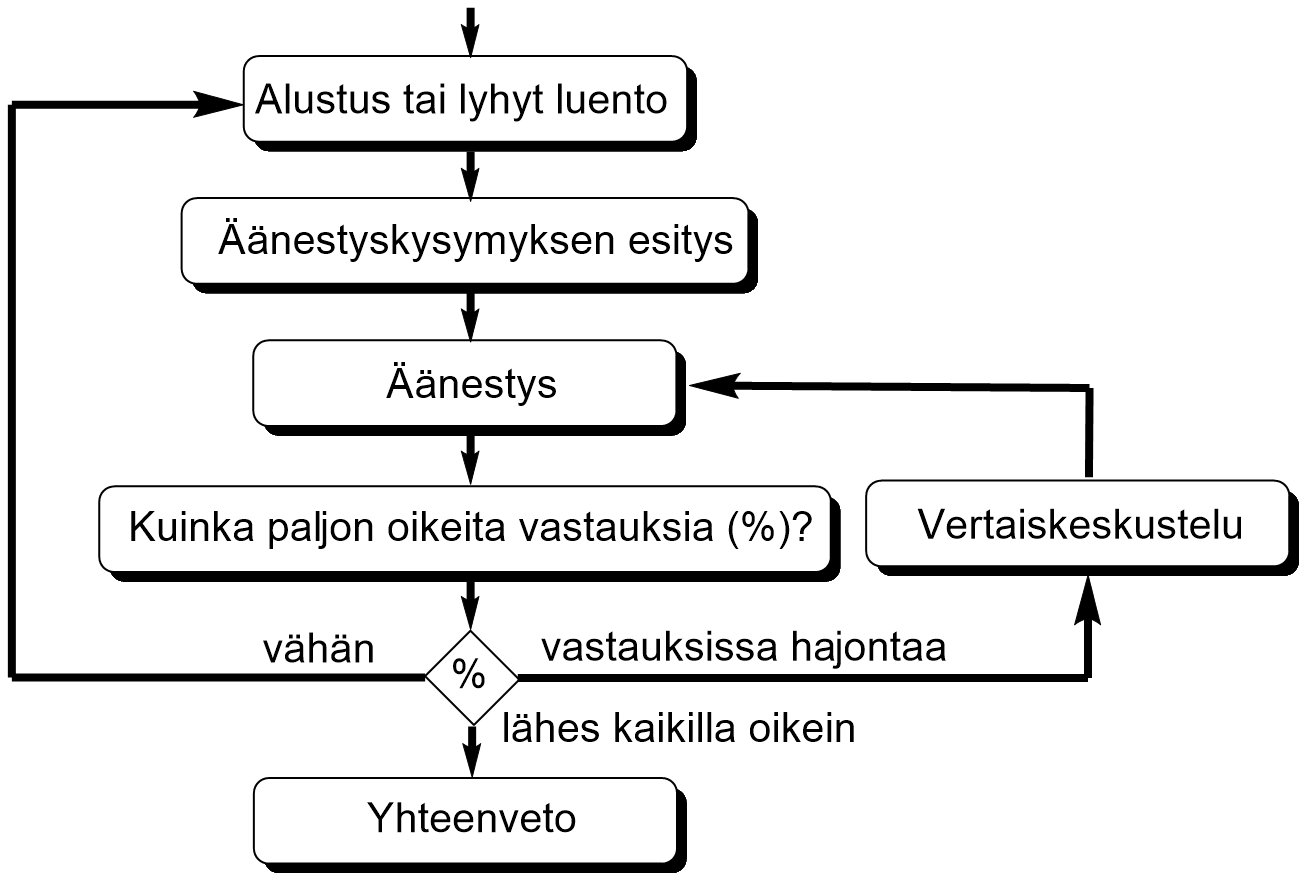 Kaavio vertaisohjauksen etenemisestä